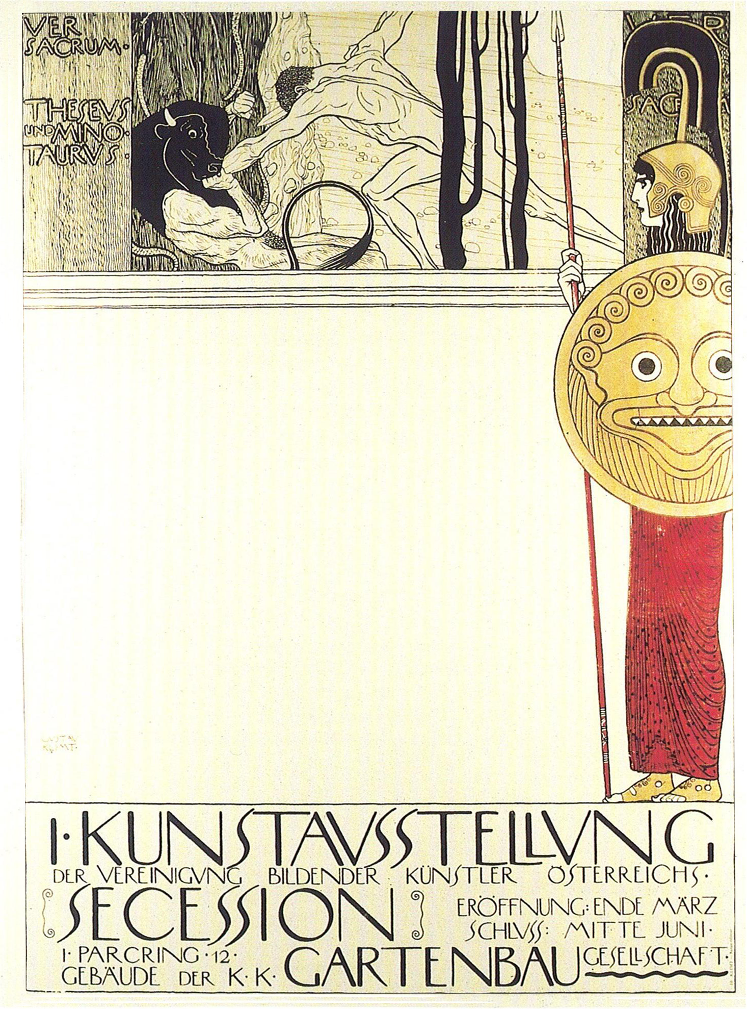 A cleaned up version of Image:Gustav Klimt 072.jpg by me (Jak). The image was slightly skewed to straighten it up.